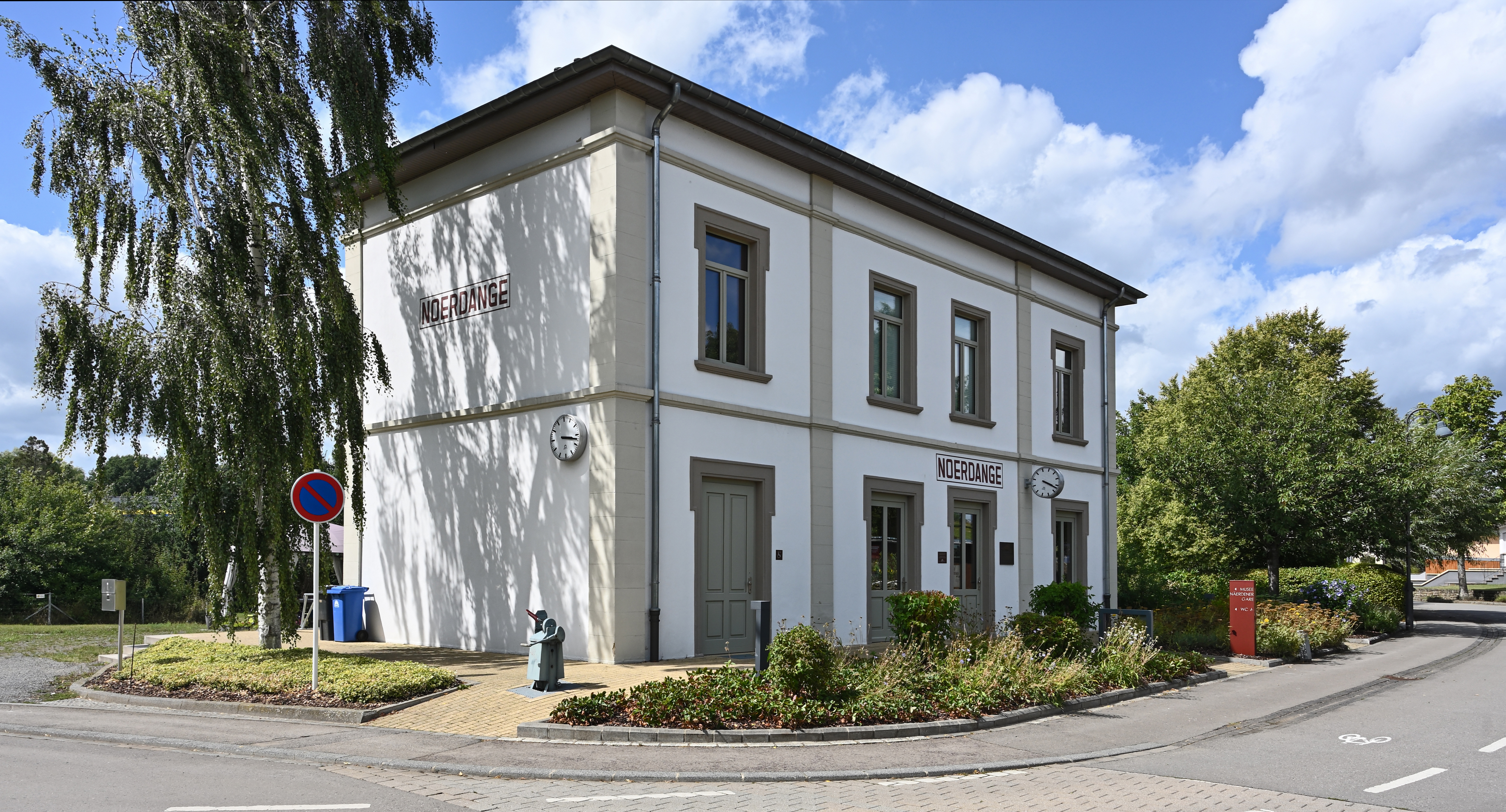 Museum Gare de Noerdange at Noerdange, commune of Beckerich, Luxembourg.